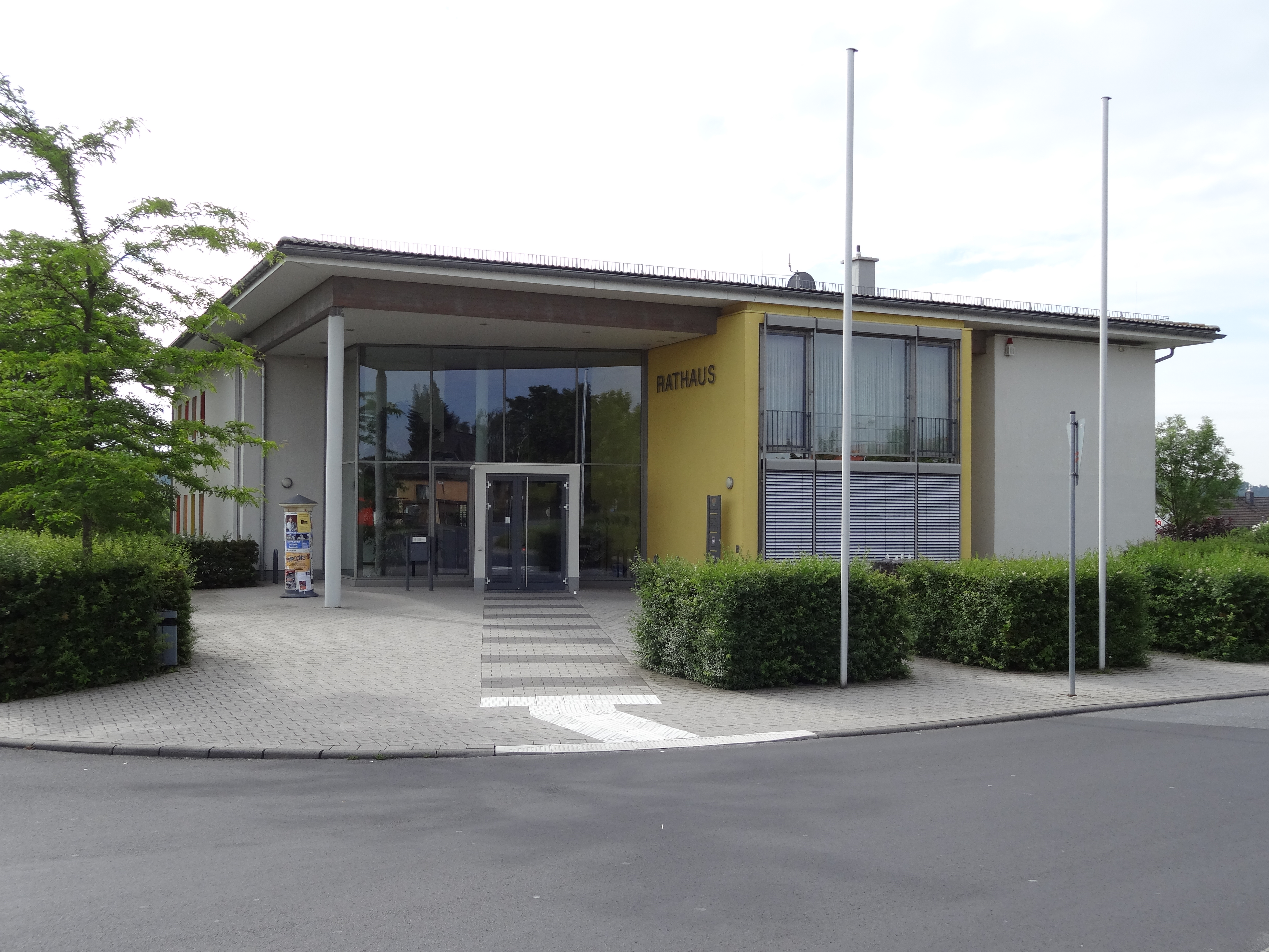 New town hall Langgöns